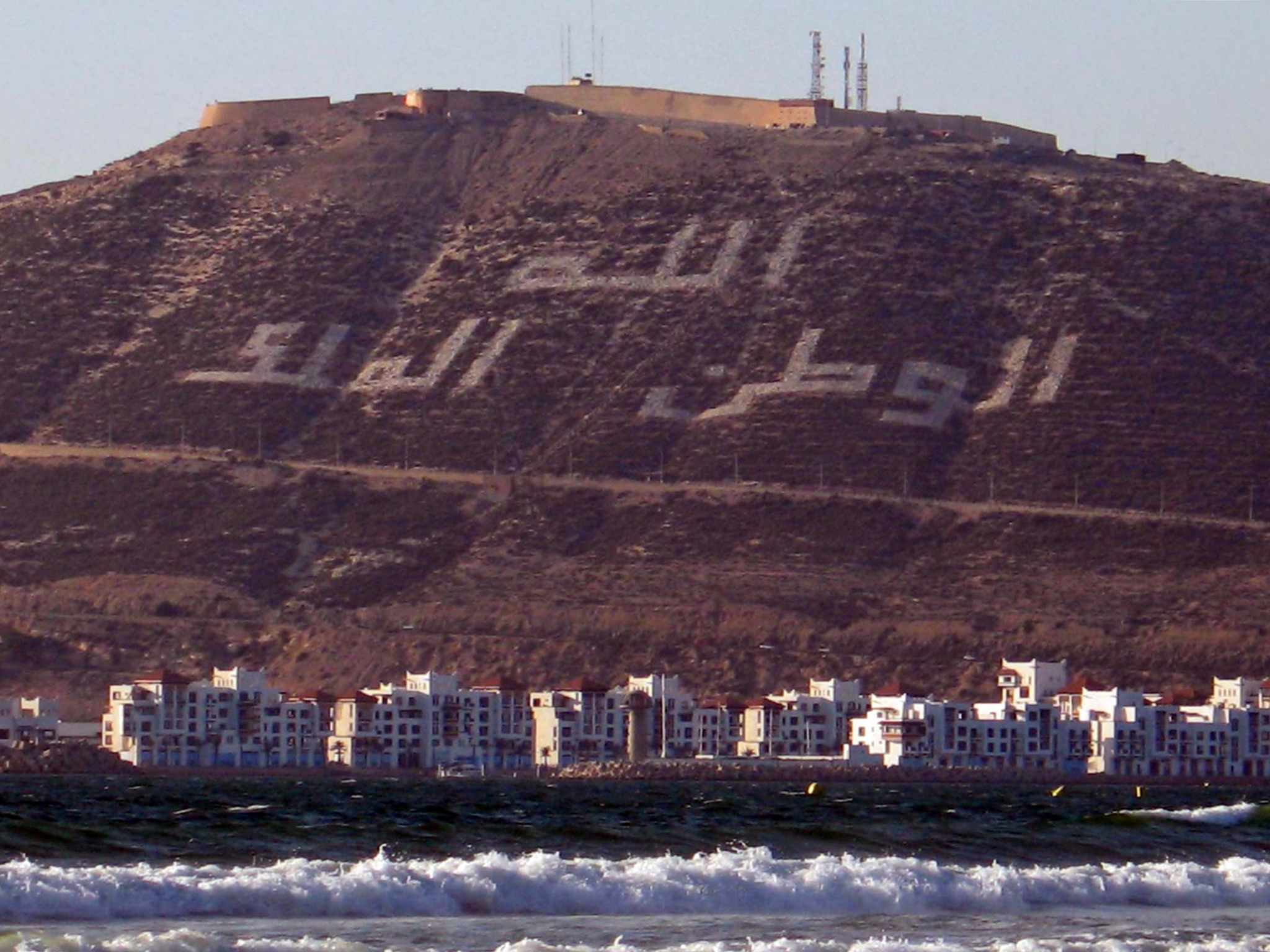 Agadir, Kasbah (Morocco)